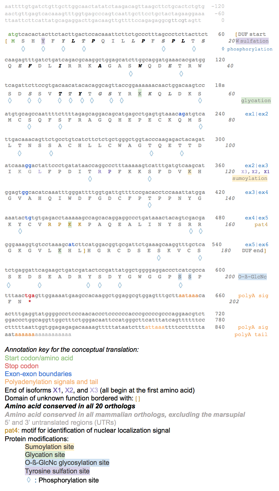 Conceptual translation of C4orf51, with annotations